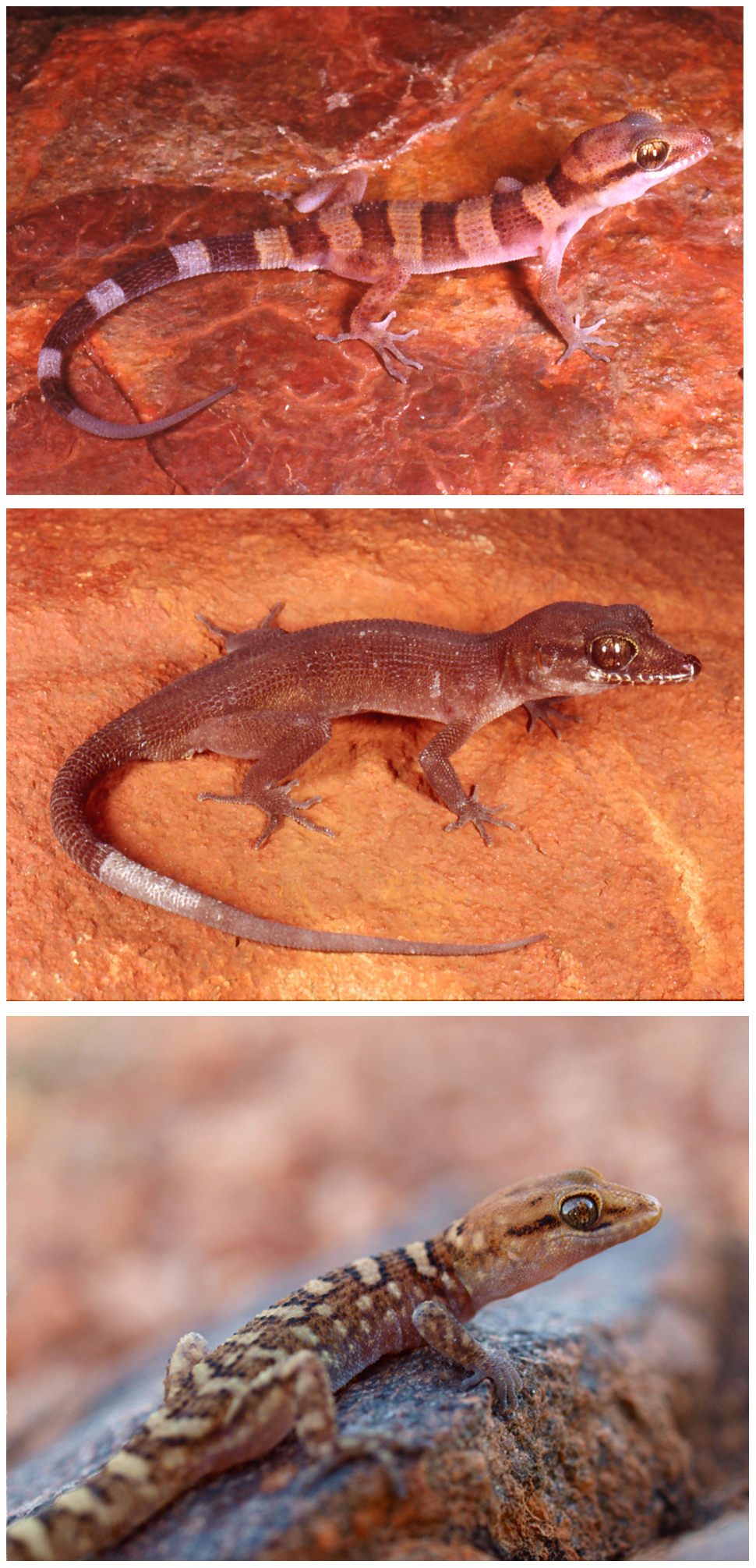 Heteronotia spp. in life. (A) Heteronotia spelea in life: Paraburdoo, WA (image: B. Maryan); (B) Heteronotia atra in life: 5 km south of Lake Poongkaliyarra, WA (image: B. Maryan); (C) Heteronotia fasciolatus in life: Harts Range, central Australia, NT (image: M. Pepper).